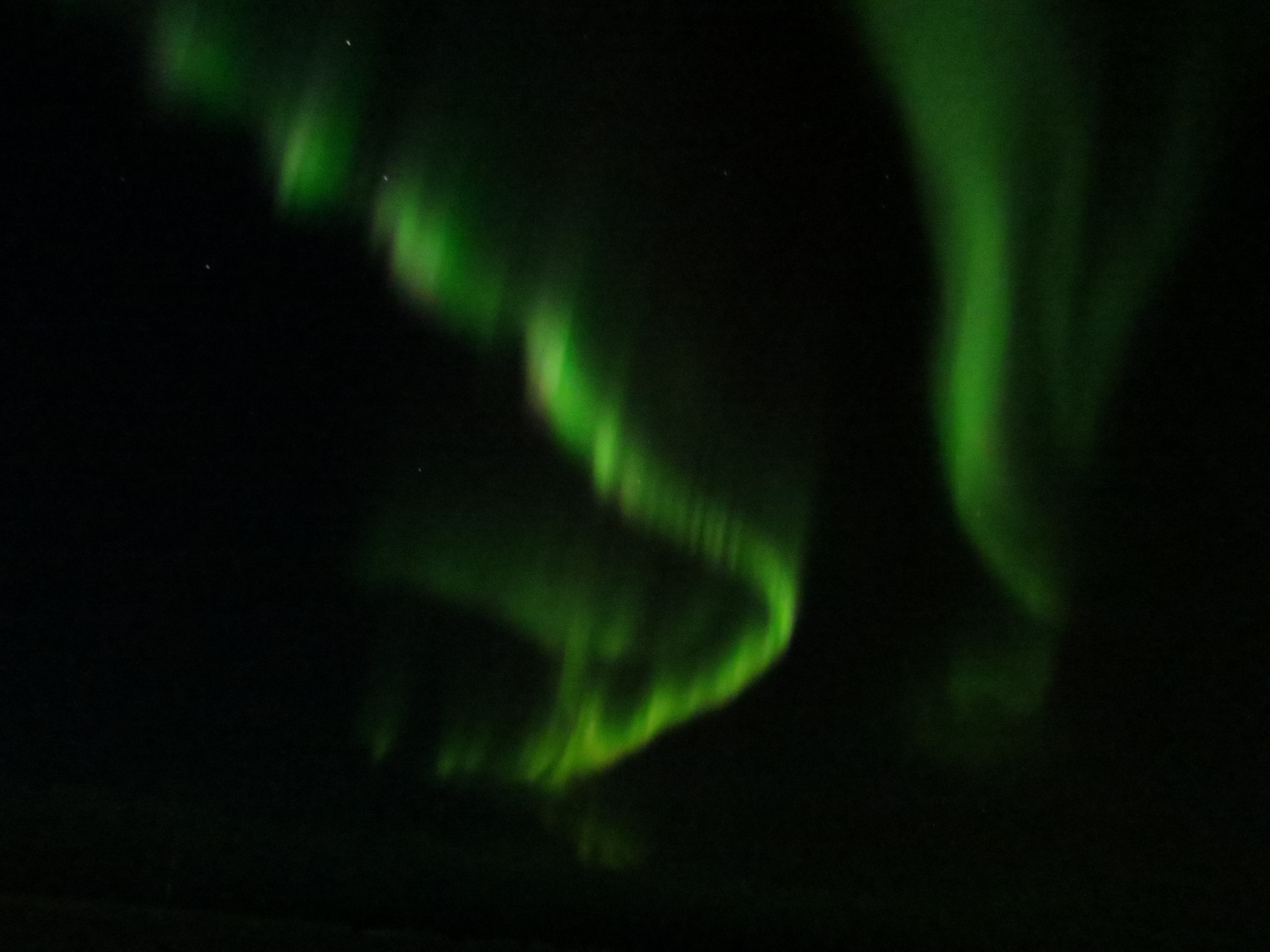 Aurora Borealis viewed during a geomagnetic storm, viewed east of Churchill, Manitoba near the shore of Hudson Bay